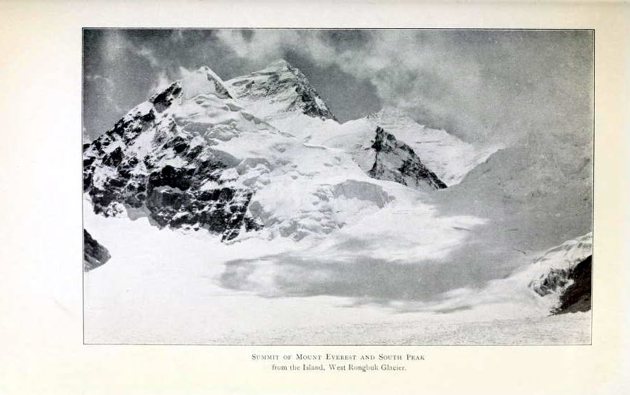 Photograph by George Mallory (18 June 1886 – 8 or 9 June 1924) fron page 219 of Howard-Bury, C. K. (1922). Mount Everest the Reconnaissance, 1921 (1 ed.). New York, Longman & Green. Howard-Bury (15 August 1881 – 20 September 1963)